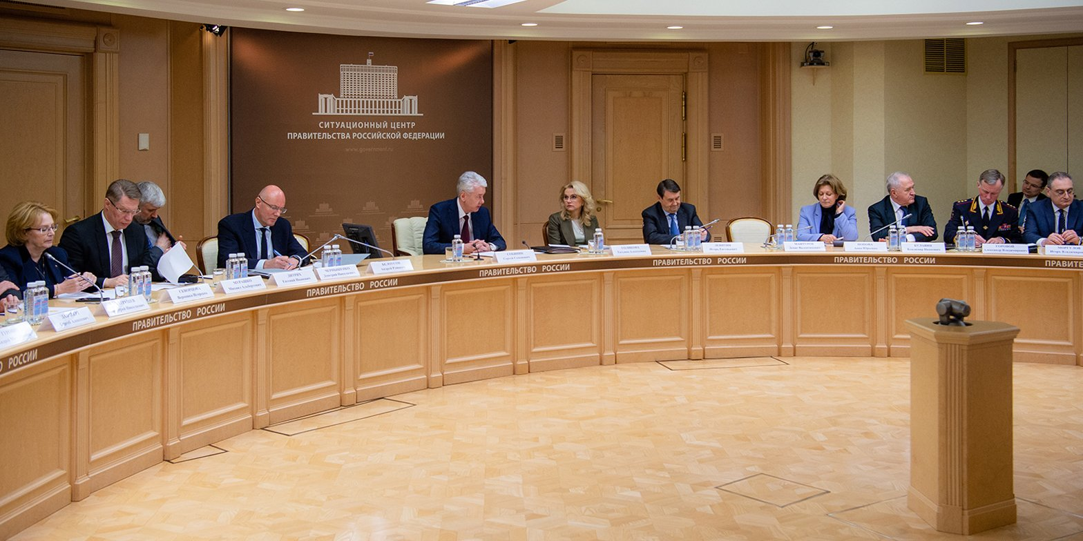 Sergei Sobyanin held the first meeting of the State Council working group on countering the spread of coronavirus